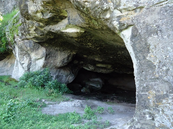 A cave shrine at Mt Elgon used by the Faithfuls of Dini Ya Msambwa, and still Held in reverence